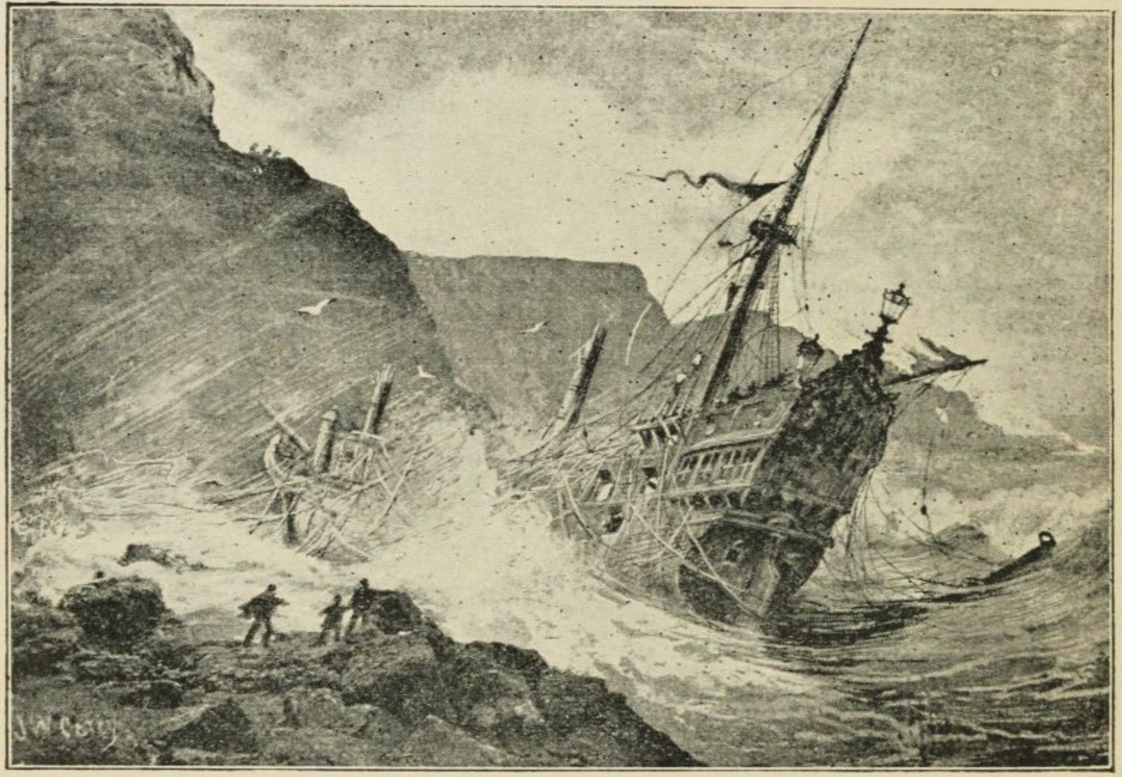 19th-century engraving depicts a Spanish Galleon shipwreck at Port-Na Spaniagh, 1588. Lacada Point and the Spanish Rocks are in the background. (Note: The Girona is the only Armada ship known to have sunk at Port-Na Spaniagh. Her actual wreck site off Lacada Point was not re-discovered until 1967. So this engraving was surely a fanciful depiction of the galleass, Girona. As the oars are smashed or missing, and their rowing ports obscured by waves, her misidentification as a "galleon" in the original book-plate caption is understandable.)